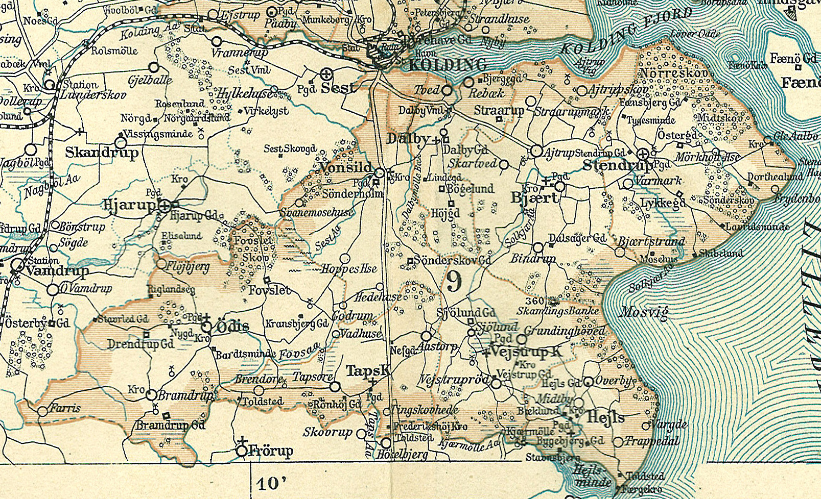 Map of Nørre Tyrstrup Herred in Vejle County in Denmark